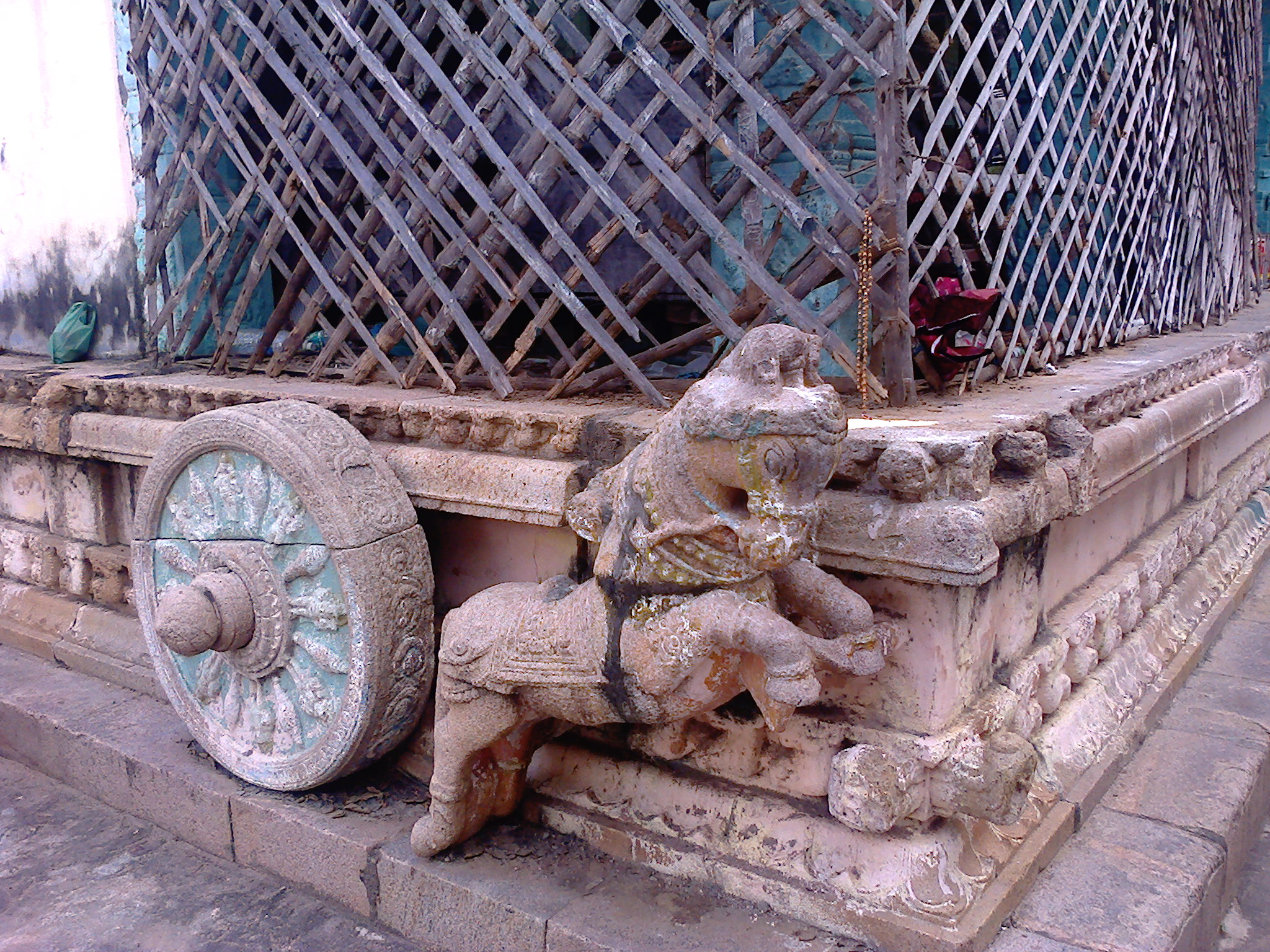 Tirukkarukavur chariotlike mandapa திருக்கருக்காவூர் தேர்வடிவ மண்டபம்